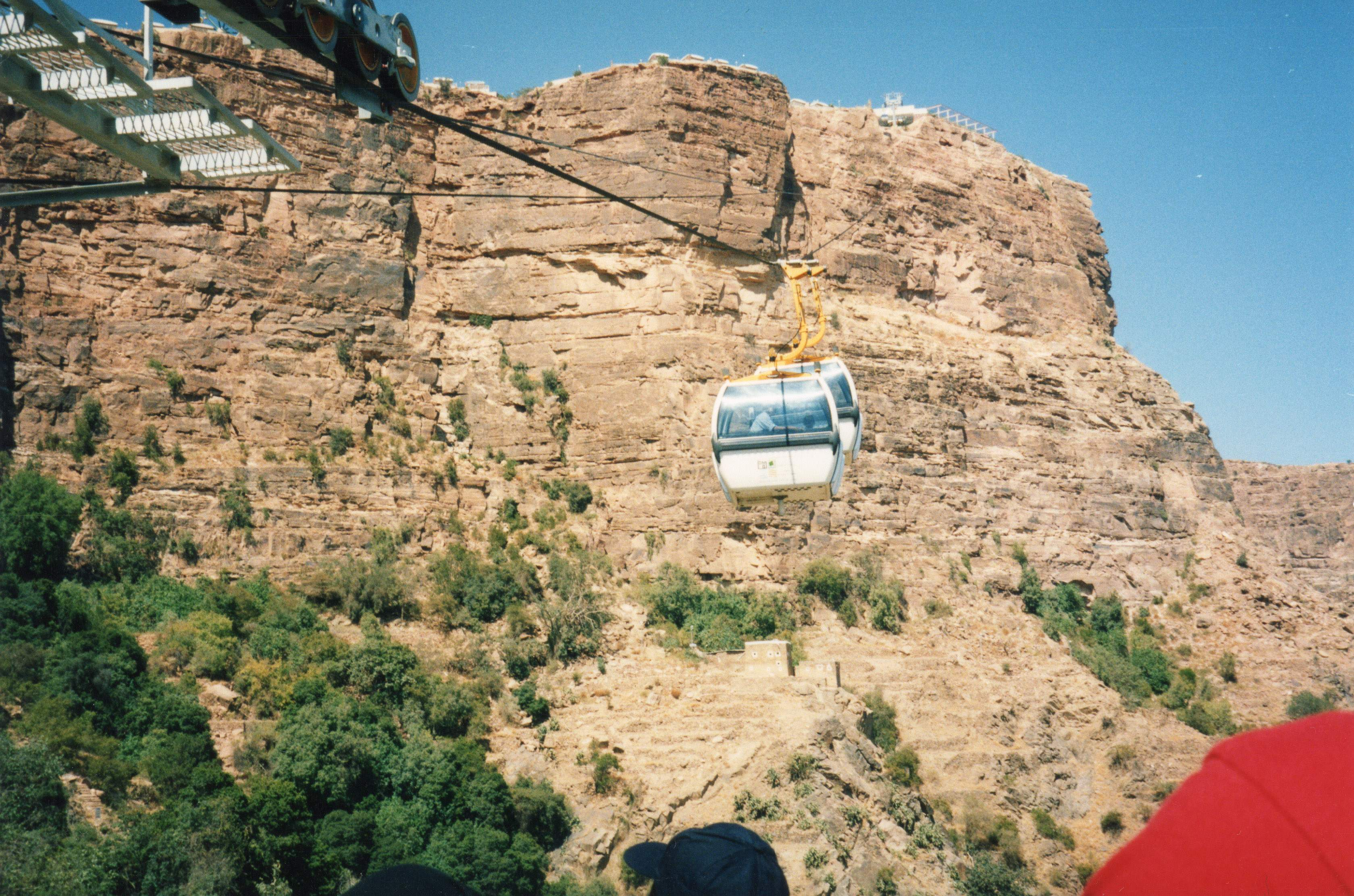 Habla, a valley in Abha, Saudi Arabia